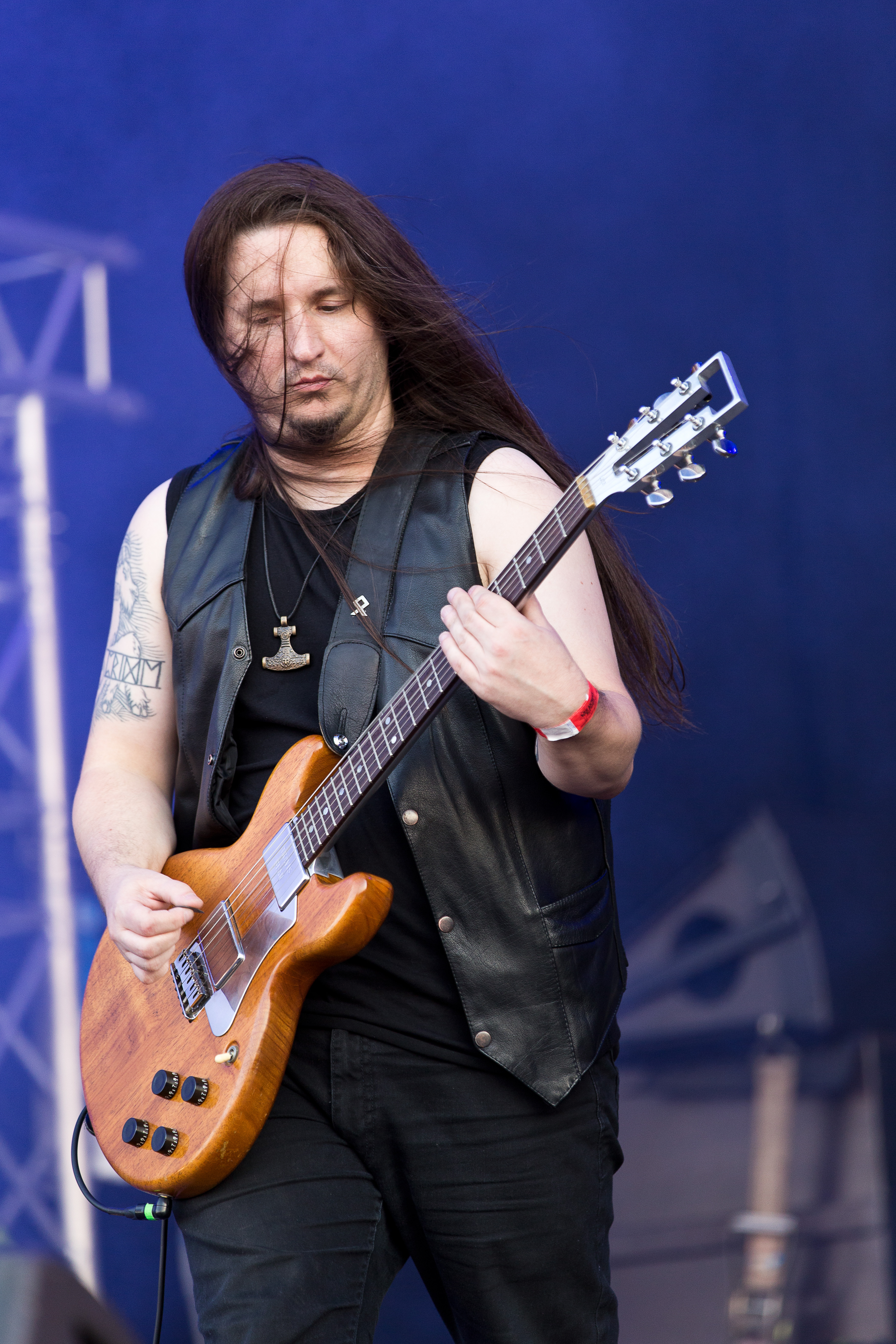 The US dark metal band Agalloch at the Party.San Open Air 2015 in Obermehler-Schlotheim/Germany.